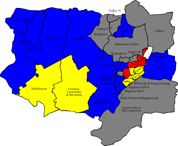 A map of the results of the 2006 Basingstoke and Deane Council election. Colour legend by wards won: Conservative party Liberal Democrats Labour party Independent Wards in grey were not contested in 2006.